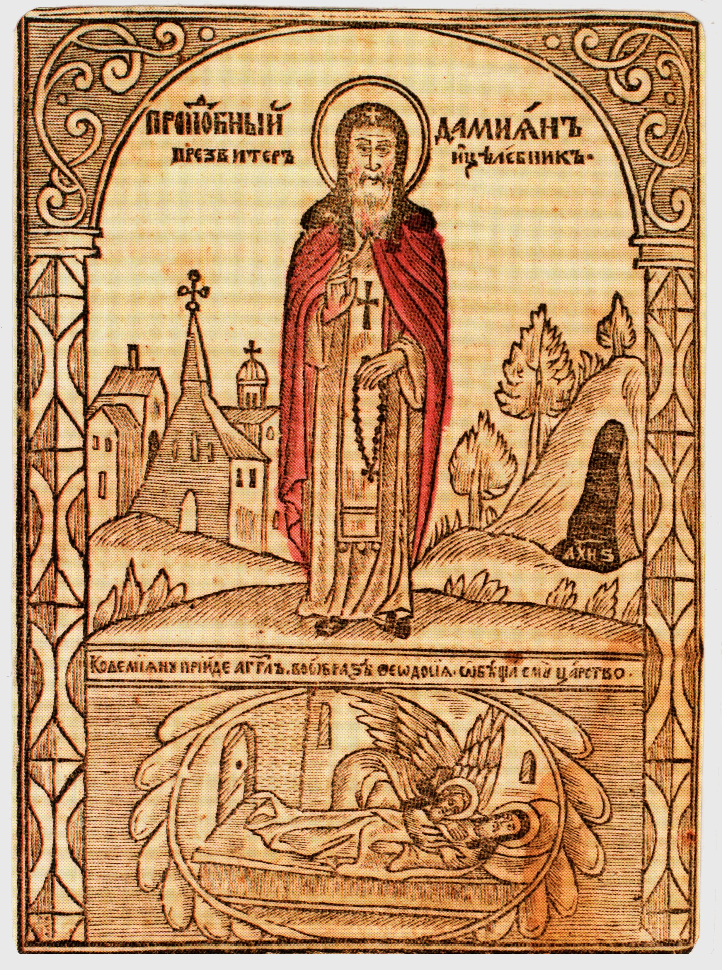 Saint Damian of Kiev. Russian picture (1661). "Преподобный презвитер Дамиан и[с]целебник." Киево - Печерский патерик, издание 1661 года.